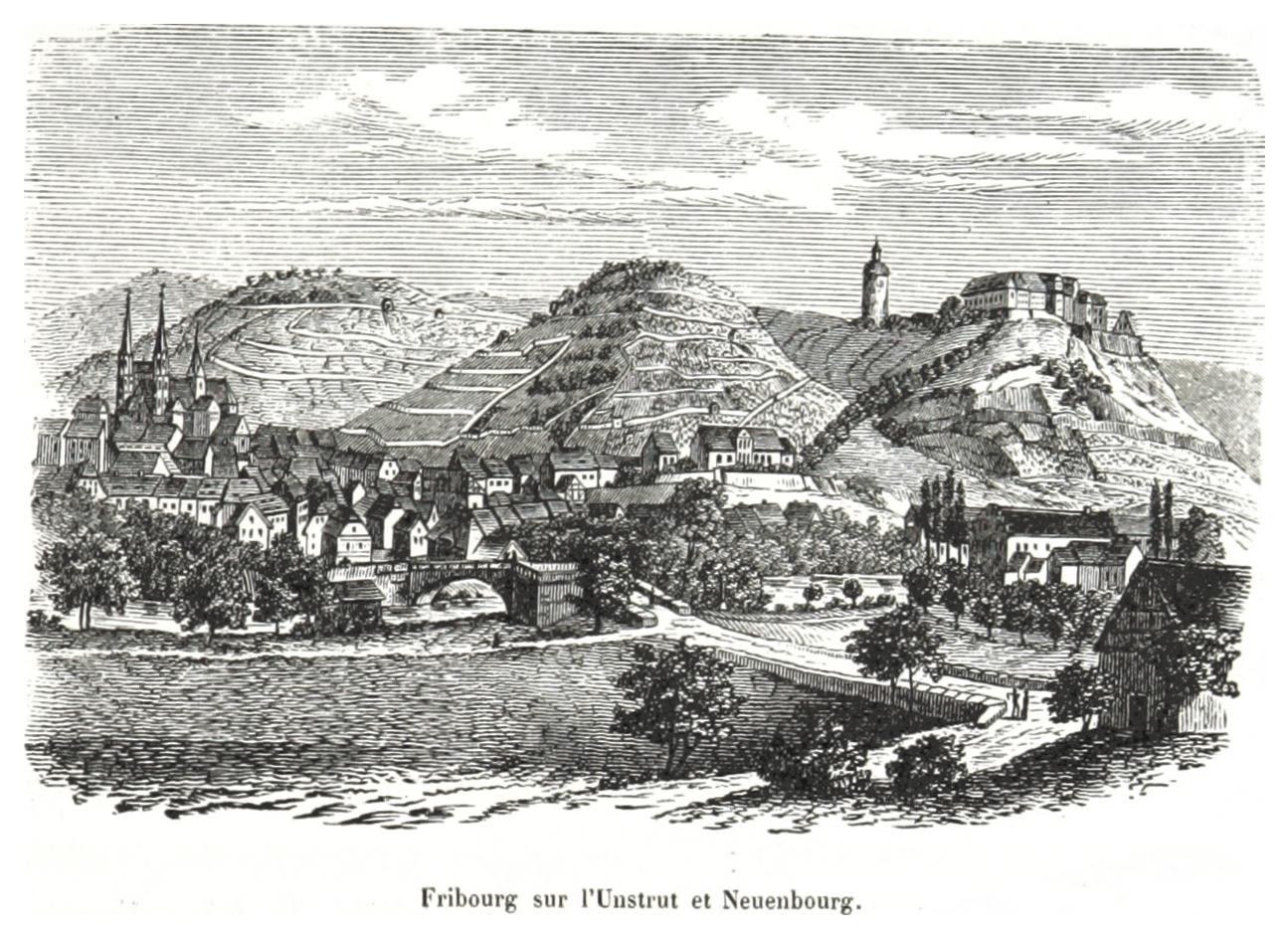 Image extracted from page of 155 Dans la Forêt de Thuringe. Voyage d'étude (1862) by Édouard Humbert. Original held and digitised by the British Library. Copied from Flickr. Note: The colours, contrast and appearance of these illustrations are unlikely to be true to life. They are derived from scanned images that have been enhanced for machine interpretation and have been altered from their originals.